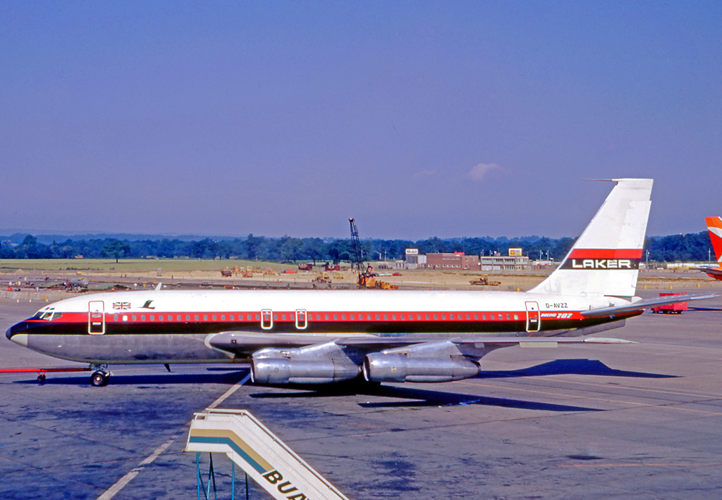 Boeing 707-138B G-AVZZ of Laker Airways at London Gatwick Airport in 1970